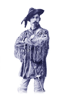 James Morrow Walsh 22 May 1840 – 25 July 1905 Born in Prescott, Ontario